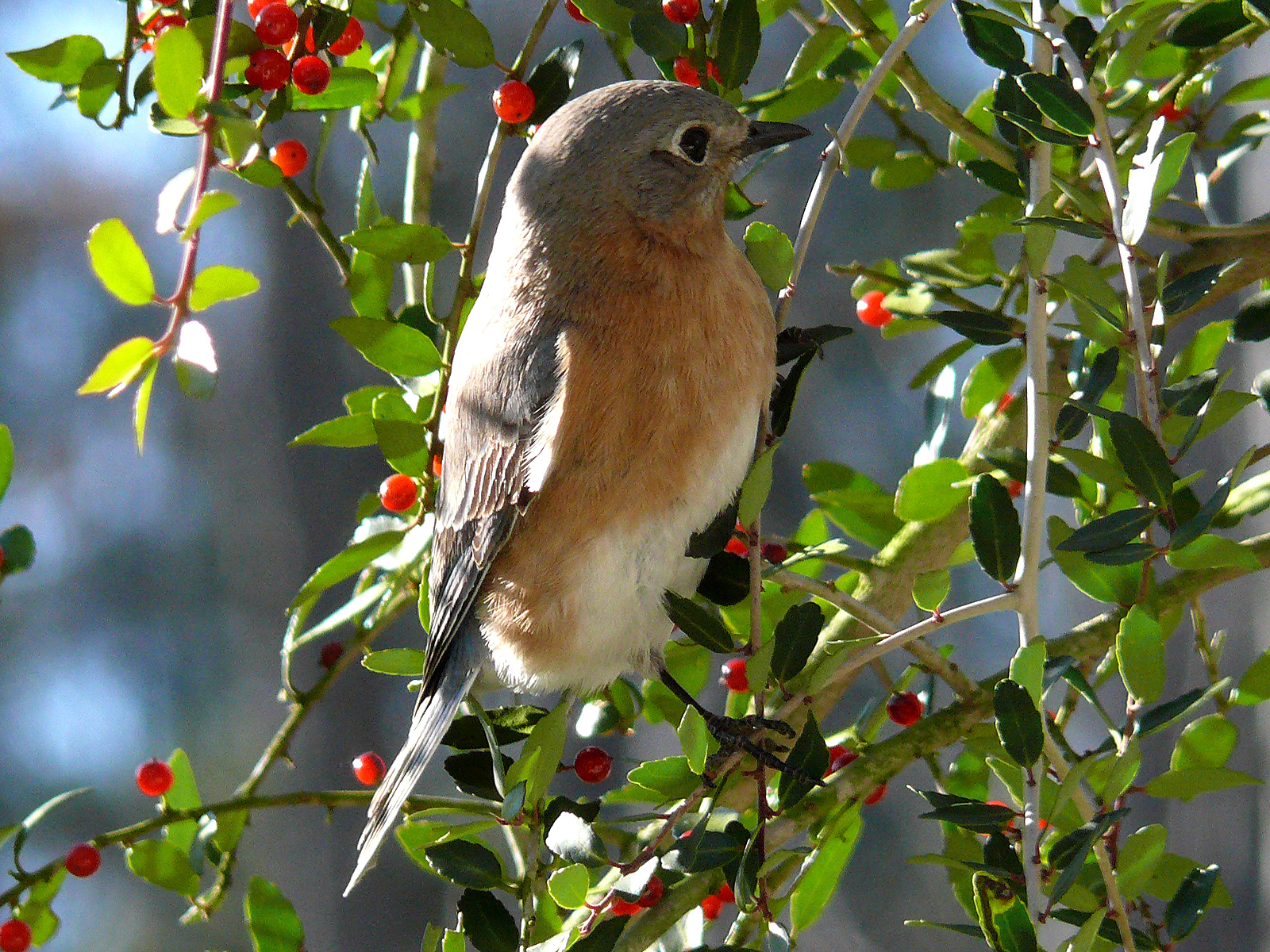 An Eastern Bluebird (Sialia sialis) in winter plumage, eating the bright red berries of a Weeping Holly tree. Photo taken with a Panasonic Lumix DMC-FZ50 in Johnston County, North Carolina, USA.